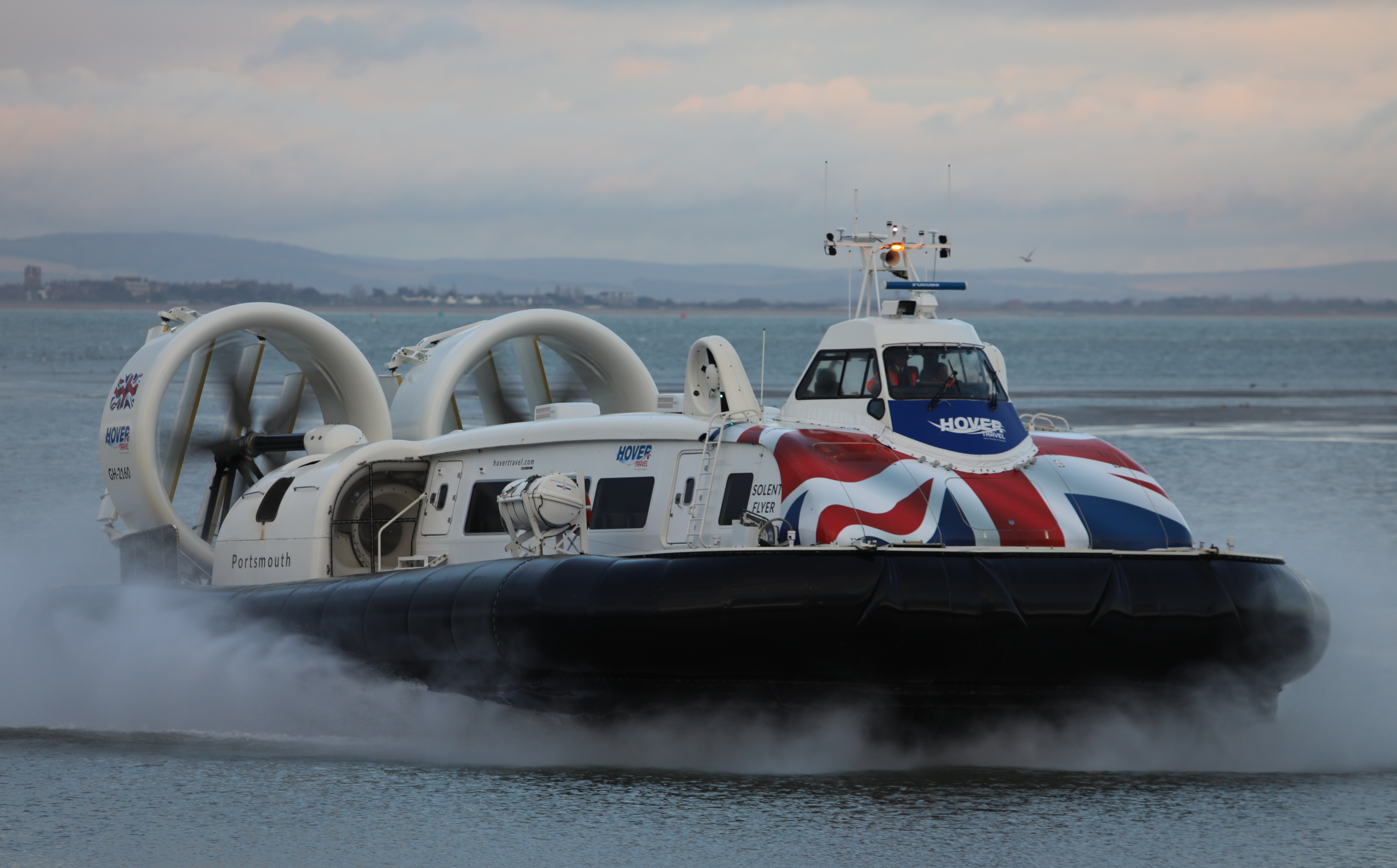 Photo of the solent flyer hovercraft operated by hovertravel approaching ryde